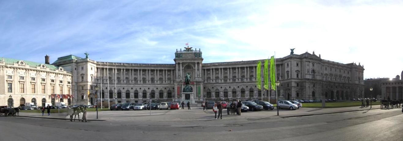 Panoramic view of the Neue Burg in Vienna. To the right the "Corps de Logis".